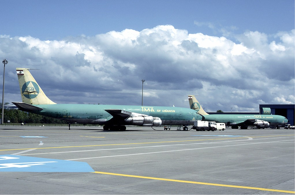 A Boeing 707 of Trans Mediterranean Airways at Basle in 1984